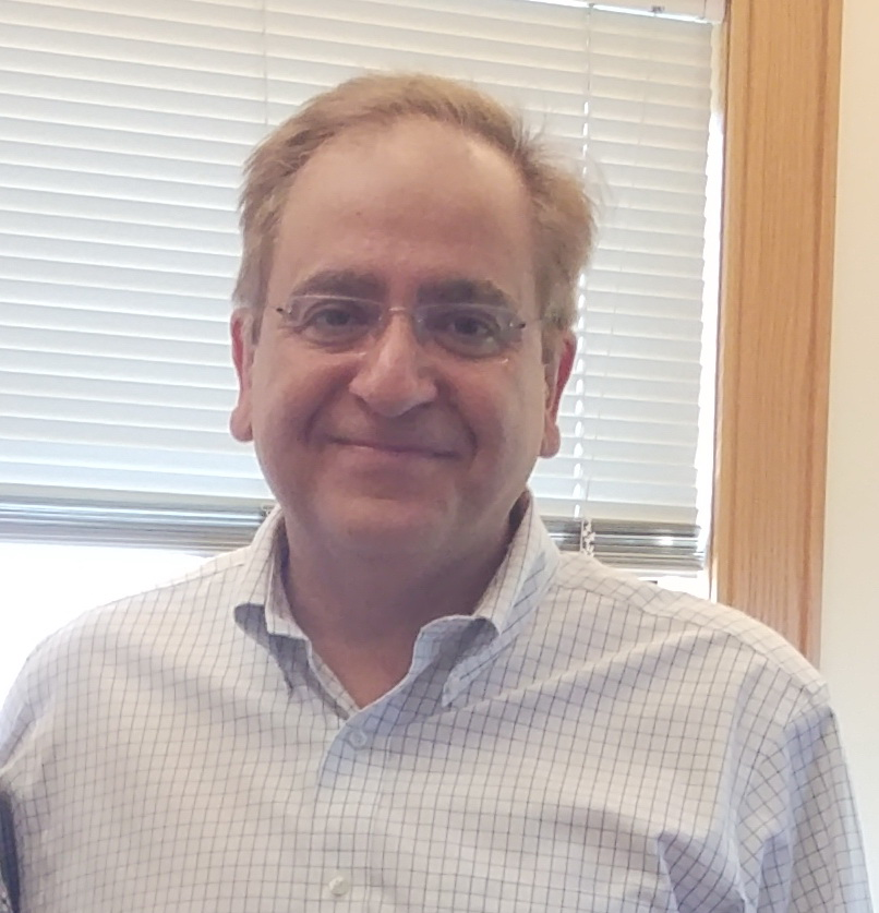 Prof. Cumrun Vafa, faculty member of physics at Harvard university, 2016